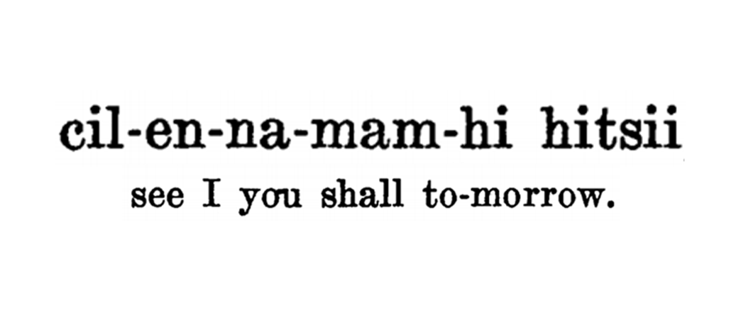 I shall see you tomorrow in Yawelmani